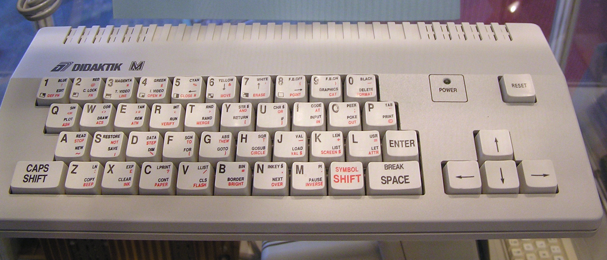 Picture of Didaktik M, clone of computer ZX Spectrum, produced in Czechoslovakia since 1990. The photo was taken by the author at computer fair Invex, Brno 2005.